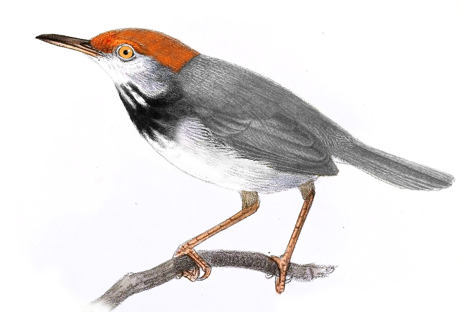 Orthotomus chaktomuk, by photomontage of Orthotomus frontalis and Orthotomus cinereiceps